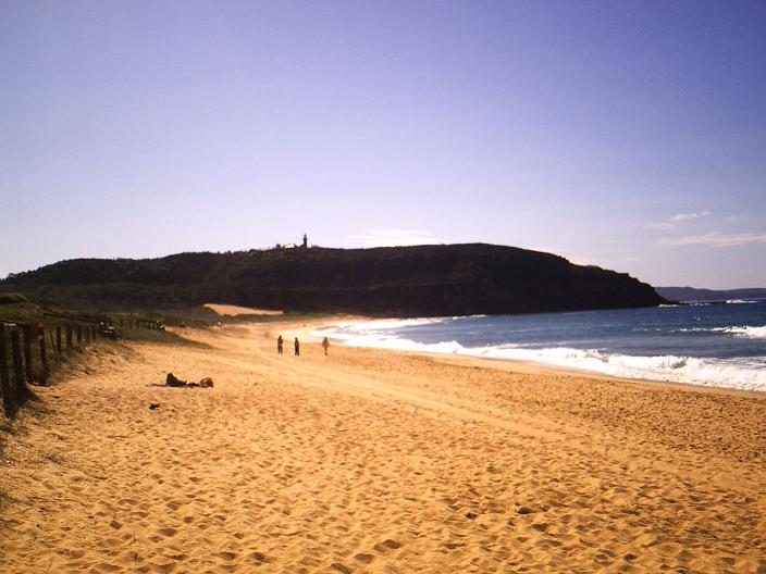 A view of Palm Beach, Sydney, Australia and Barrenjoey Head. The beach is used as a set for the Australian soap opera Home and Away. Photo taken by cls14 in August 2006.